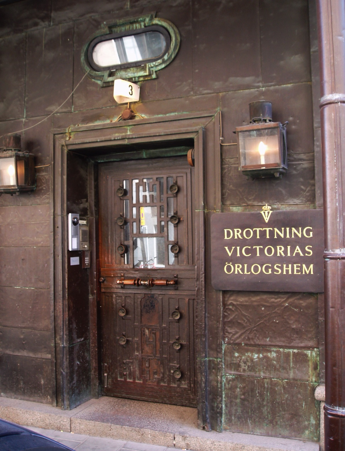 Drottning Victorias Örlogshem, Blasieholmen, Stockholm